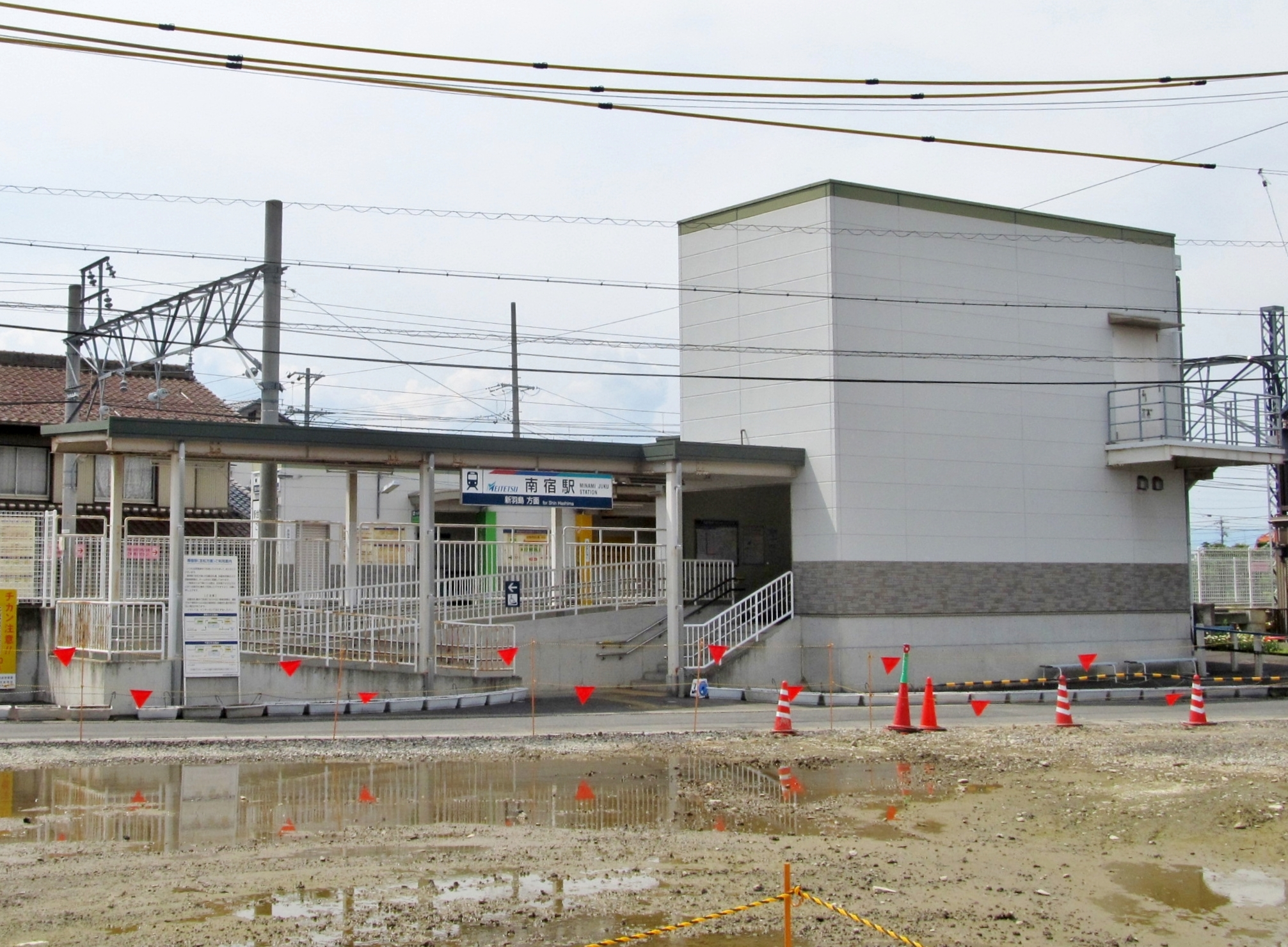 Nagoya Railroad Takehana Line Minami Juku Station Building (for Takehana)